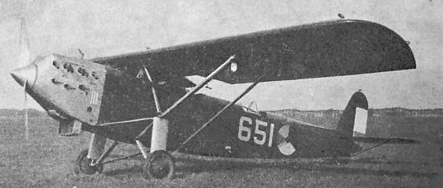 Fokker C.VIII photo from Annuaire de L'Aéronautique 1931